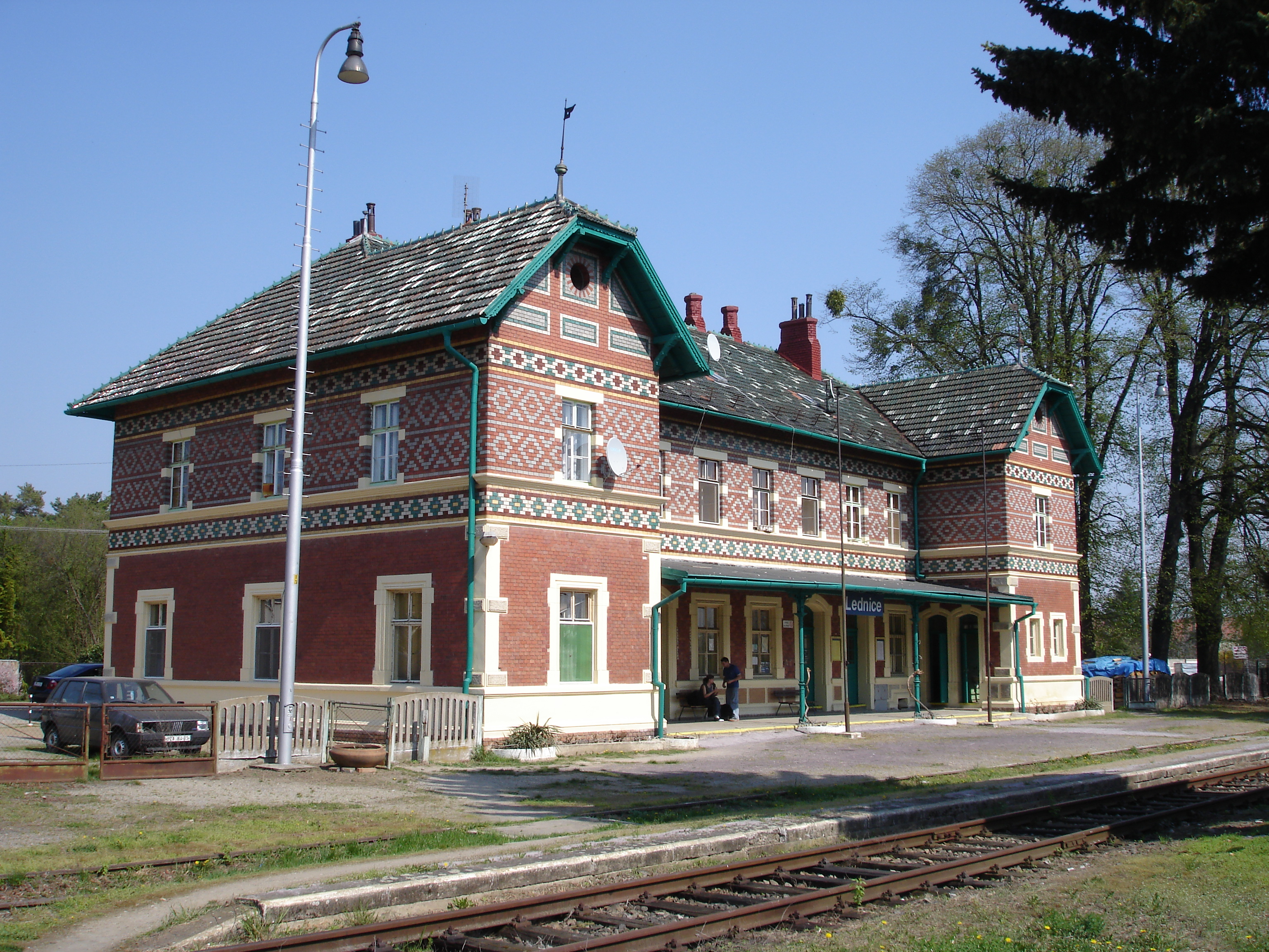 station Lednice, czech republic